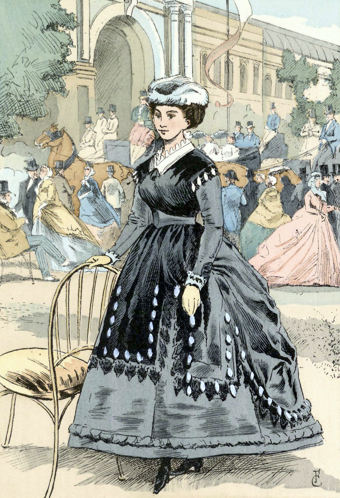 The Palais de l'industrie was constructed in the mid-1850's to house the Exposition of 1855 and for public, civil and military events. It was destroyed in the late 19th century. The woman wears a gray and black dress with a lace collar, supported by a crinoline, that reveals her ankles. She also wears a fur hat.